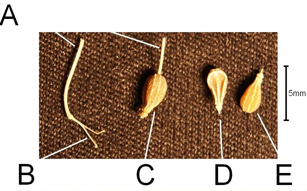 Pimpinella anisum: Seed.